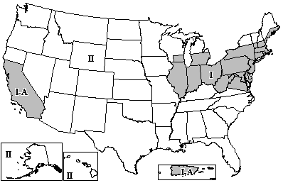 Map of FM broadcasting zones in the United States.